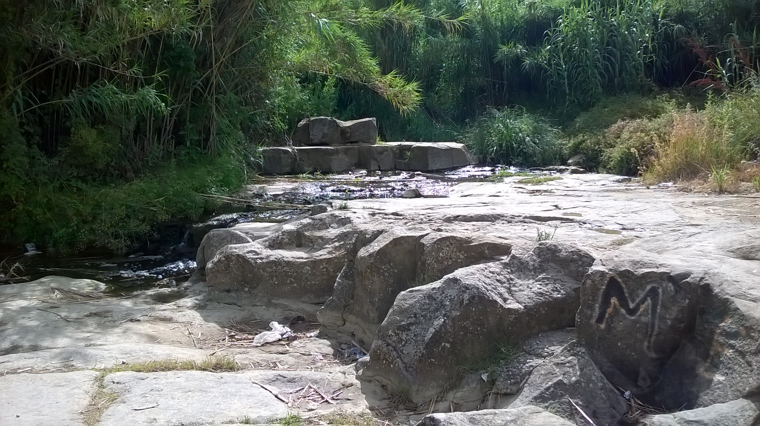 Cascatas